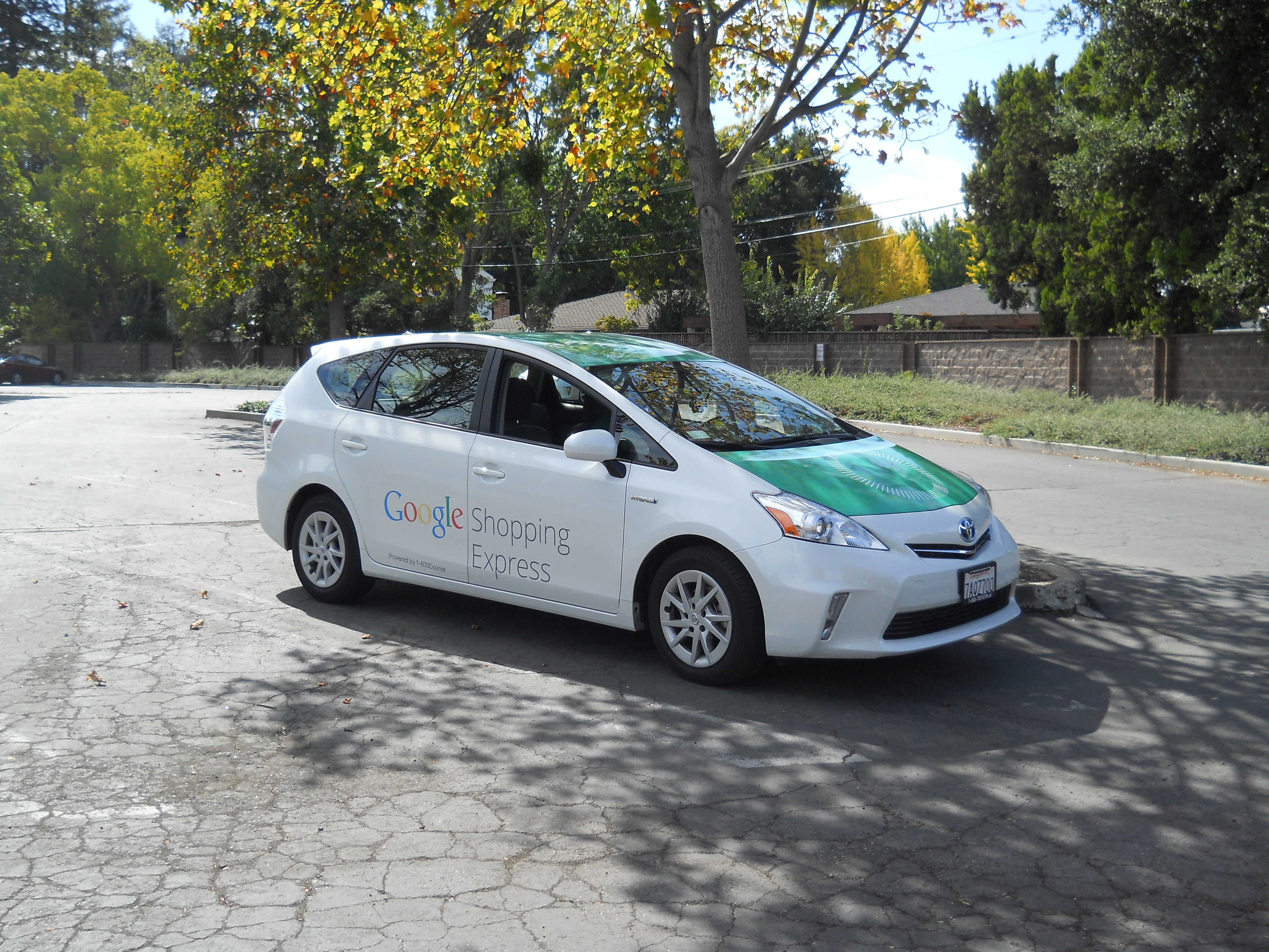 Google Shopping Express car in first livery, in Mountain View, California